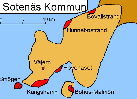 Sotenäs Municipal map, western Sweden Date as of upload